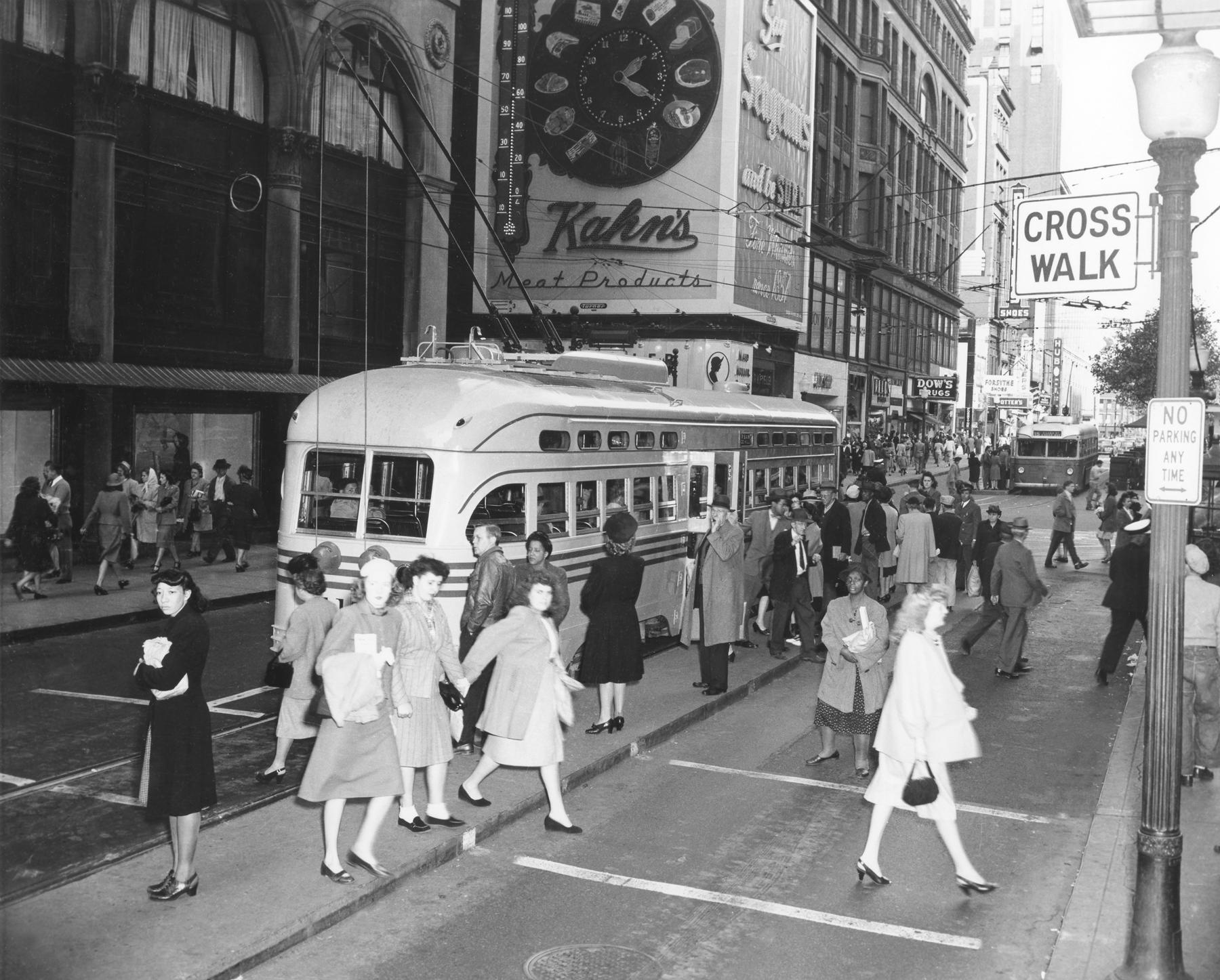 Downtown Cincinnati, Ohio, circa the early 1940s, looking northeast at 5th & Vine. A PCC streetcar is eastbound on 5th Street, and in the background a Mack trolleybus is westbound on route 15. In the upper center is the Kahn's Meat Products "meat clock". This is at the west end of Fountain Square. Every building visible in this photograph has since been demolished.